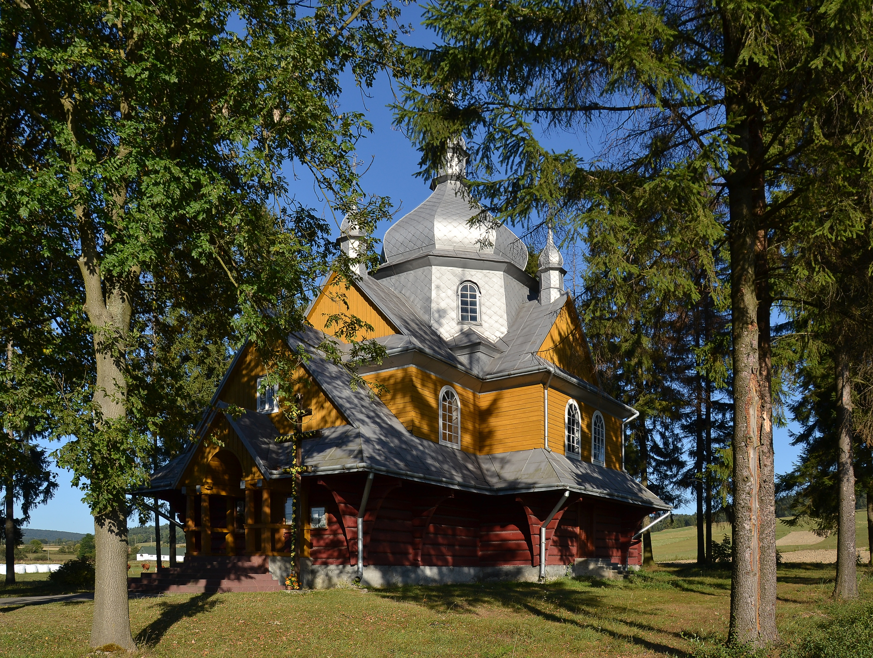 Church of the Ascension of Christ in Gładyszów (Ґладышів), Poland